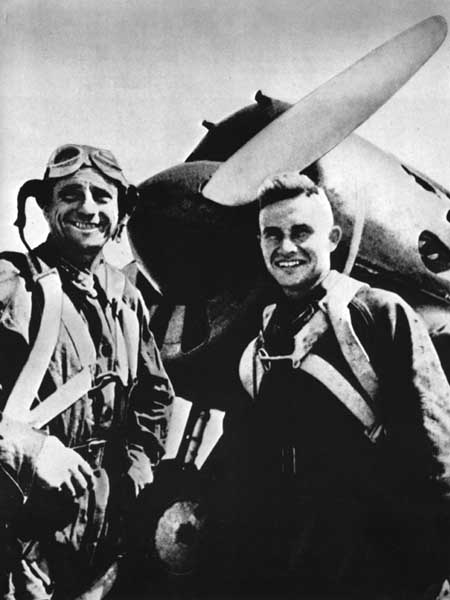 Soviet pilots Kurbatov and Moshin near I-16. Khalkhyn Gol